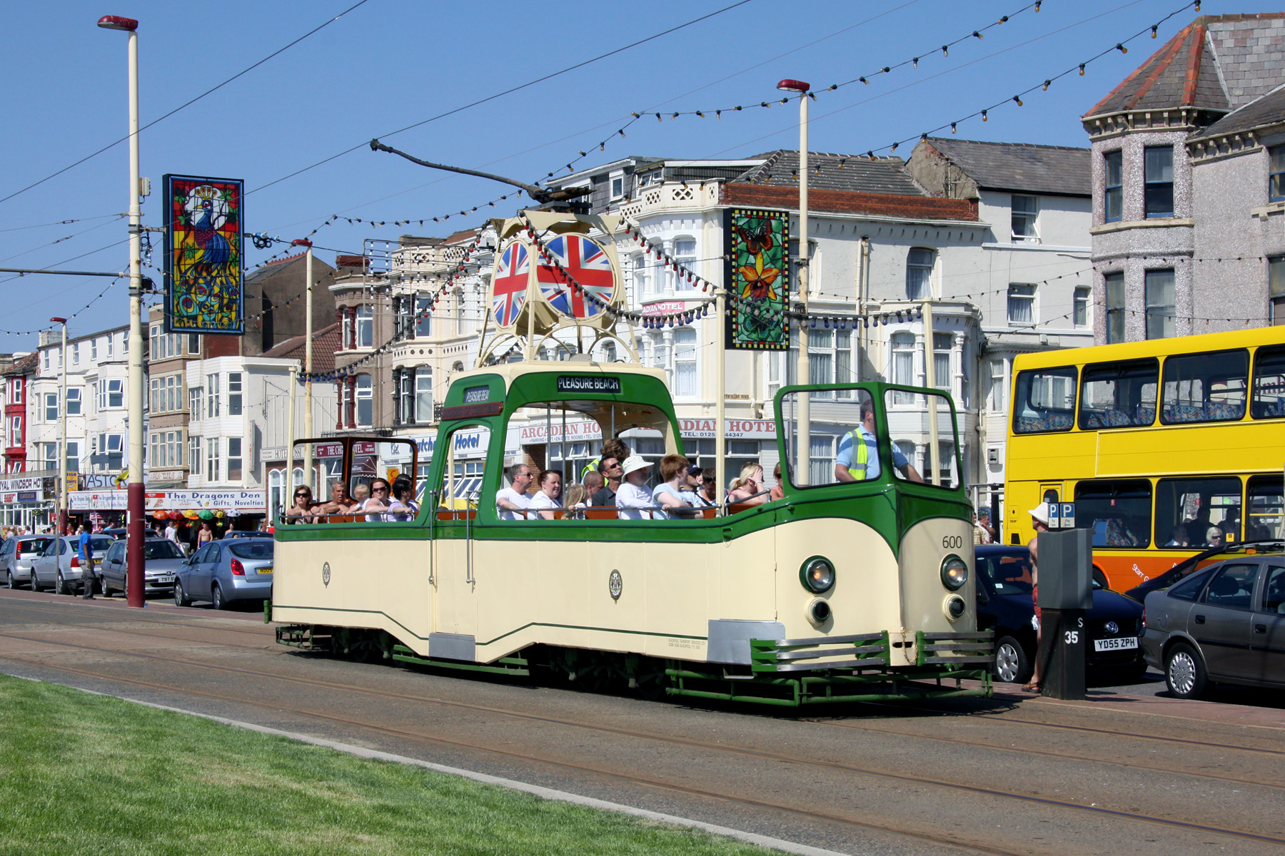 Blackpool Transport Services Limited car number 600 DUCHESS OF CORNWALL, an English Electric Company Limited ?Open Boat? single deck bogie car with English Electric 4' wheelbase equal wheel bogies, two English Electric 327 40 horse power motors and English Electric DB1 controllers with an English Electric OB56C body built 1934 on the Promenade, Blackpool by Trafalgar Road with a Talbot Square tram station to Pleasure Beach extra service. Sunday 31st May 2009